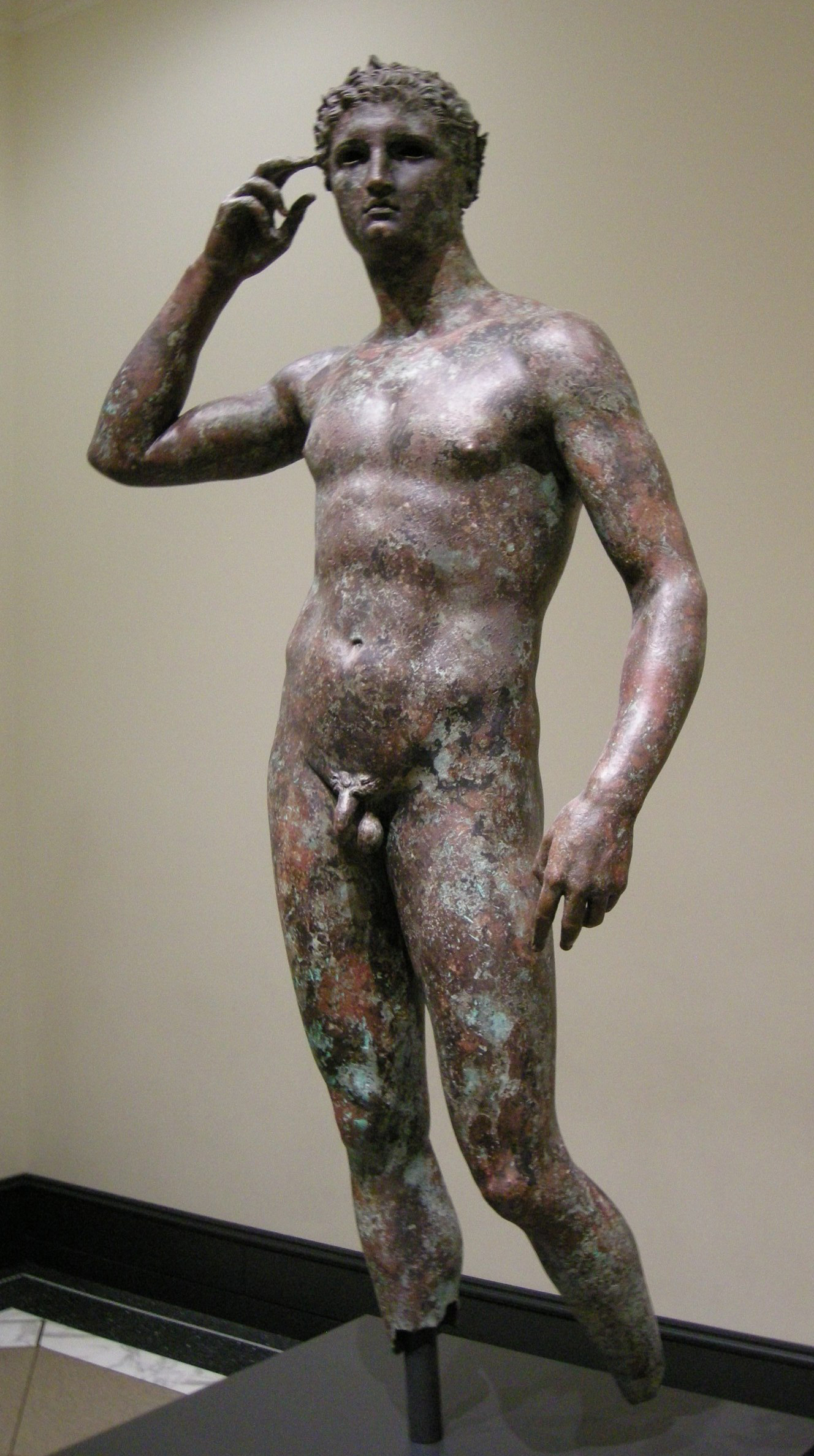 Missing the feet, ankles, eyes, part of the crown and the palm branch originally brought in the left hand. The statue is supported by a stainless steel rod inserted in his right leg.